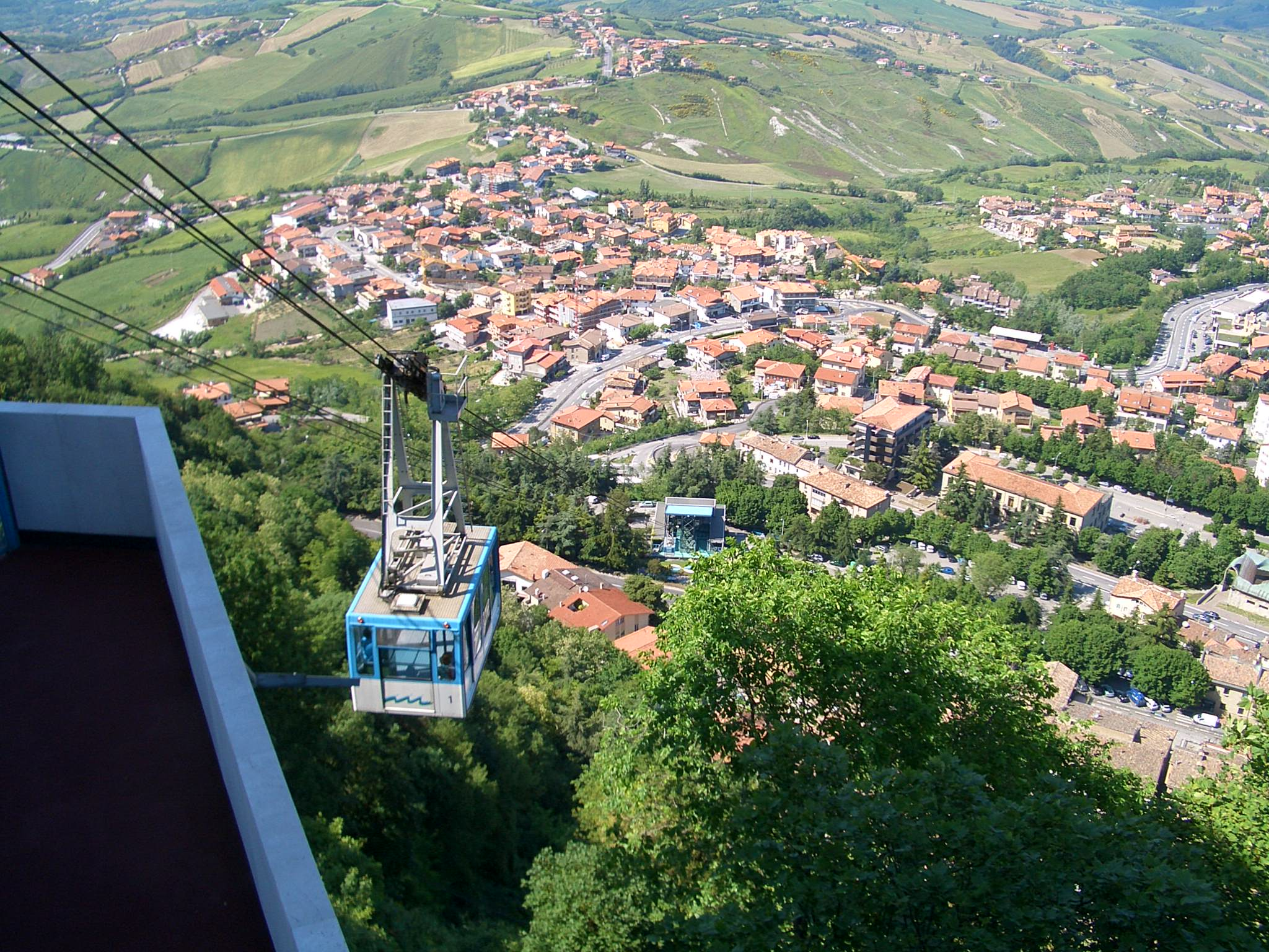 Aerial tramway gondola travels between San Marino city and Borgo Maggiore